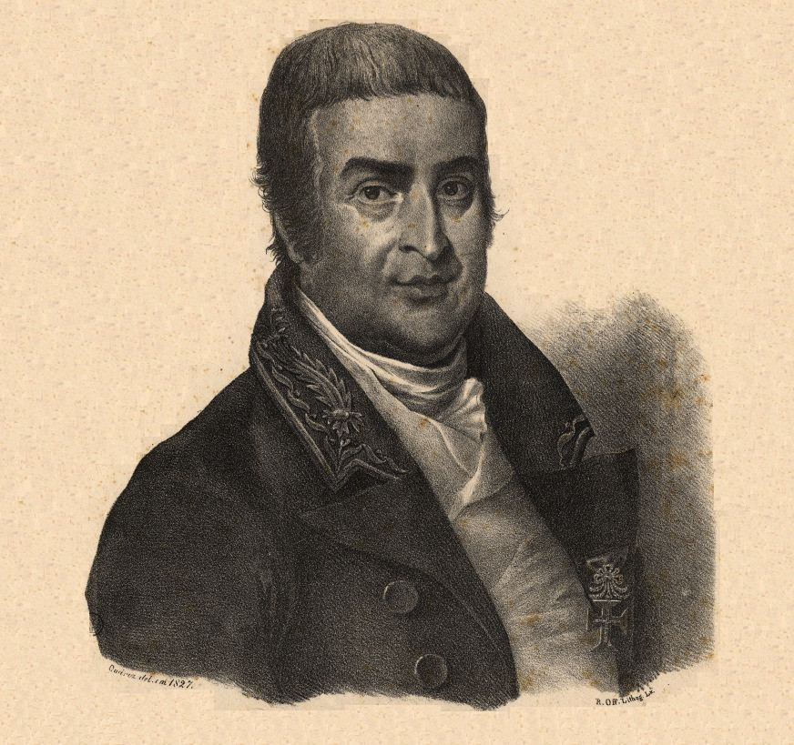 Carlos Honório de Gouveia Durão (1766—1846), a Portuguese politician of the early 19th century.